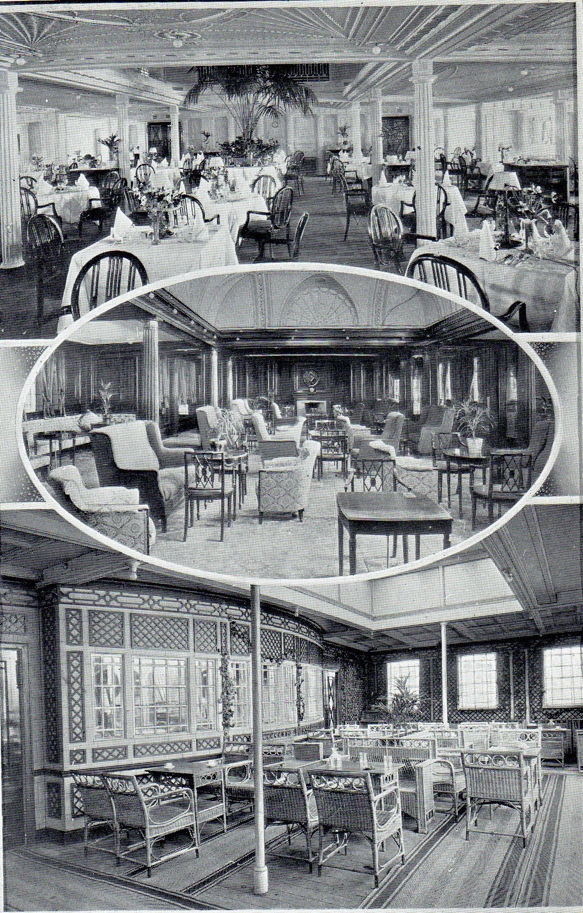 Interior photos of the dining room, lounge and cafe aboard ship Laconia